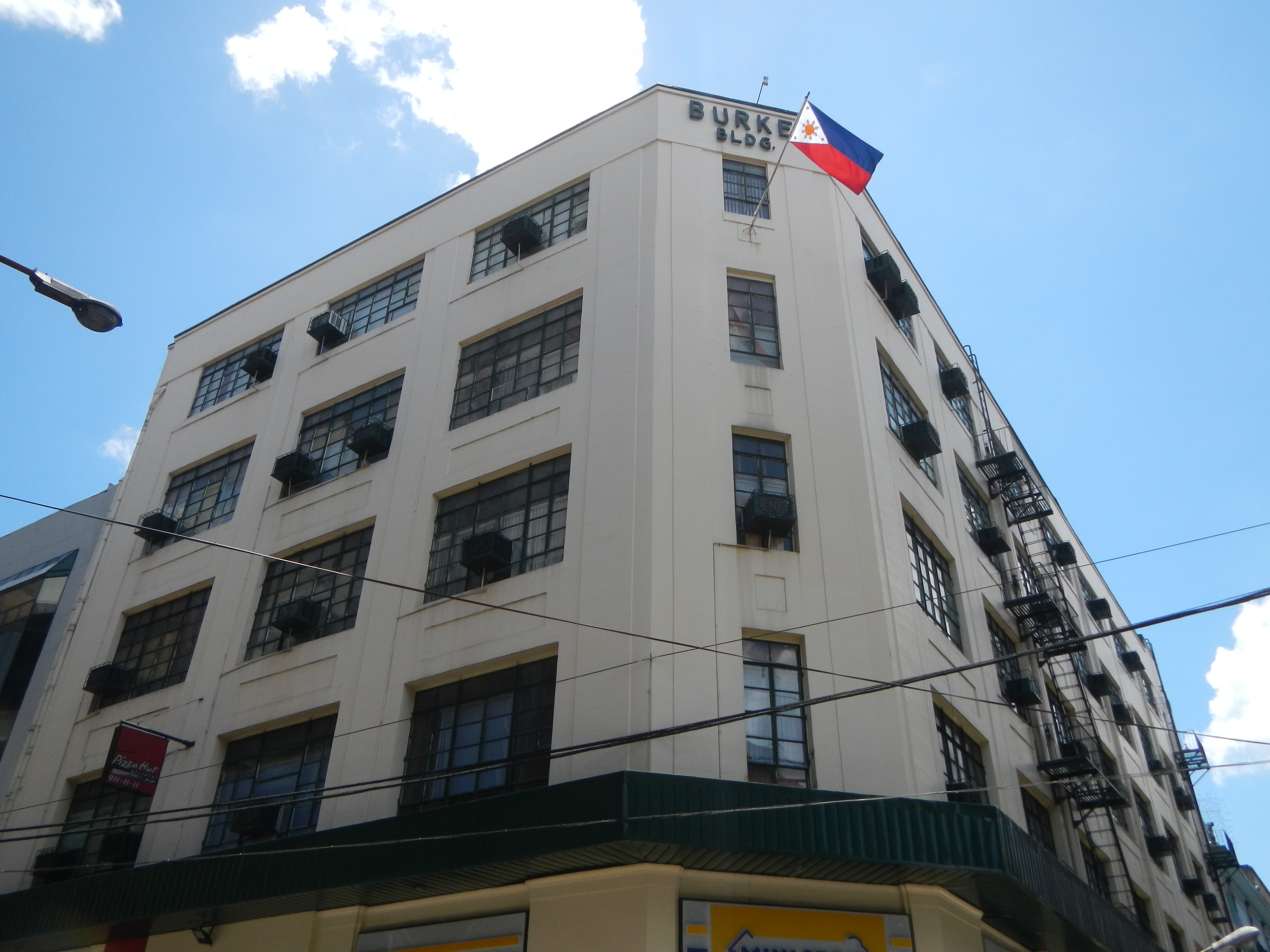 Escolta Street City of Manila, Santa Cruz, Manila and Binondo, List of Cultural Properties of the Philippines in Metro Manila, List of Cultural Properties of Santa Cruz Buildings in Santa Cruz, Manila Regina Building, First United Building (Perez-Samanillo Building) NHI or NHCP marker of Patricio Geronimo Mariano (17 March 1877 at Santa Cruz, Manila – 28 January 1935) Patricio Mariano Calle de la Escolta surrounded by Estuaries in Binondo and Santa Cruz, Manila in the List of rivers and estuaries in Metro Manila Estero de Binondo one of 6 major tributaries of the Pasig River by the Dasmarinas Bridge (Estero de la Reina).